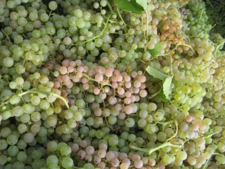 A photograph of bunches of the Garganega wine grape